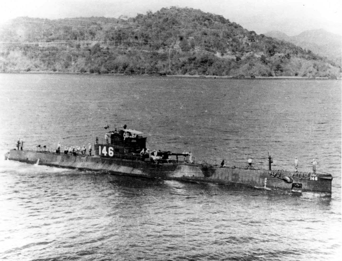 United States Navy submarine in the Far East.